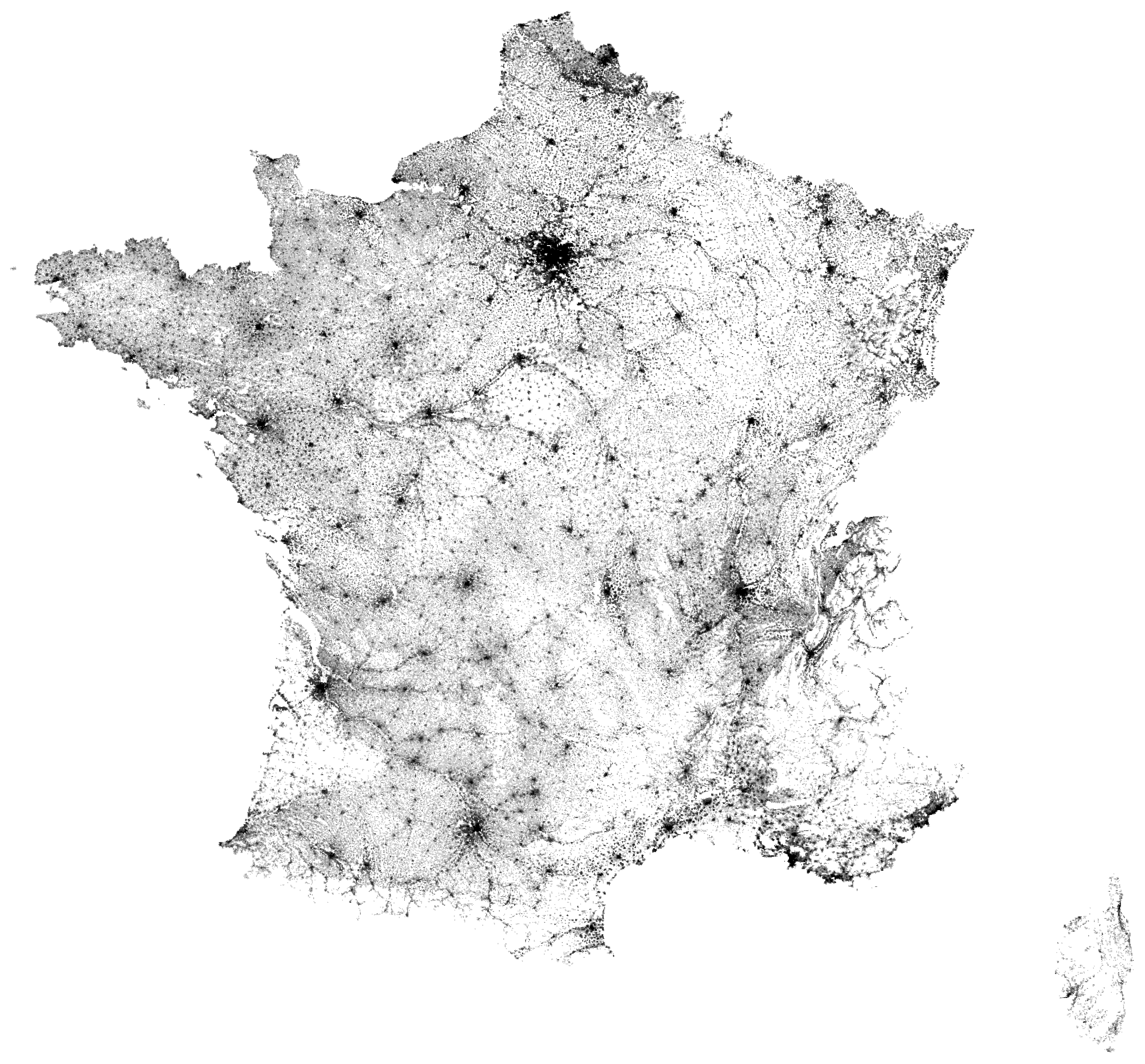 Estimations of population realized on a 1 square km grid. Projection: Lambert-93, EPSG:2154.